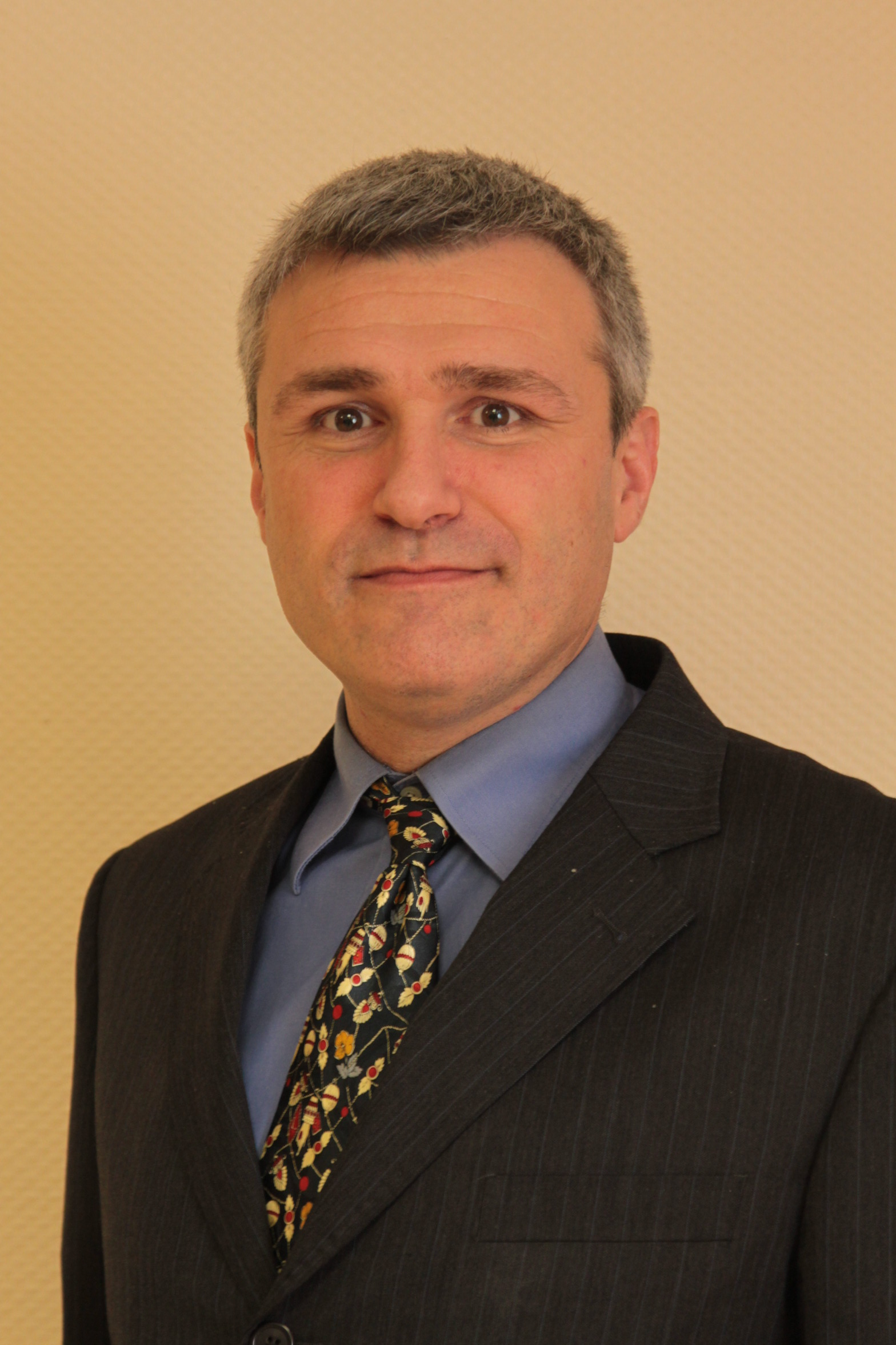 Nicolau Rei Bèthvéder